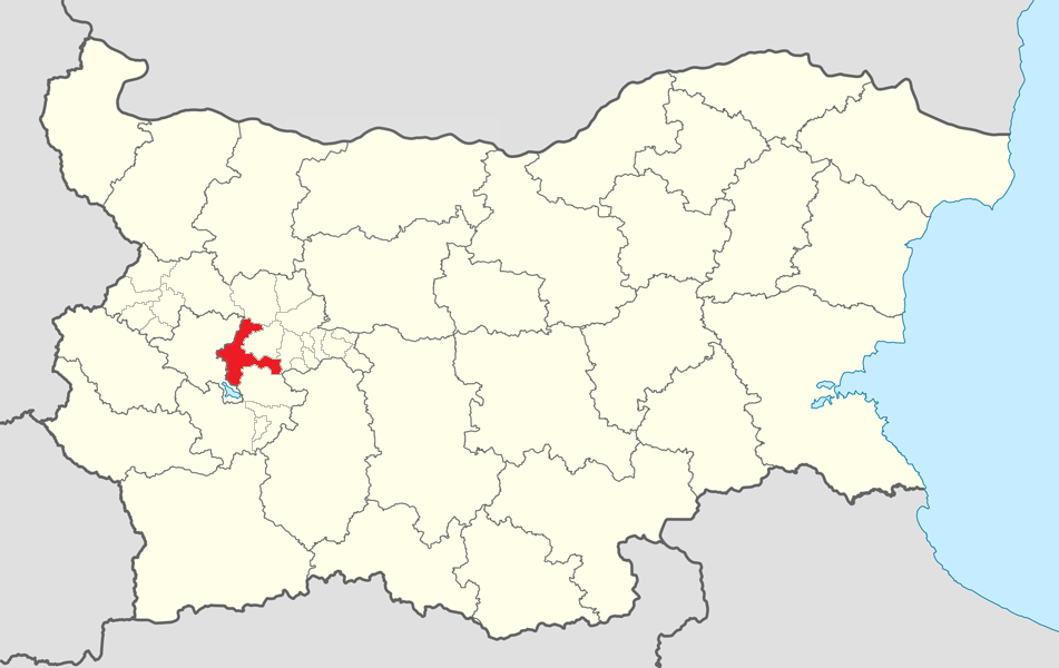 Location map of Elin Pelin Municipality within Bulgaria and Sofia province